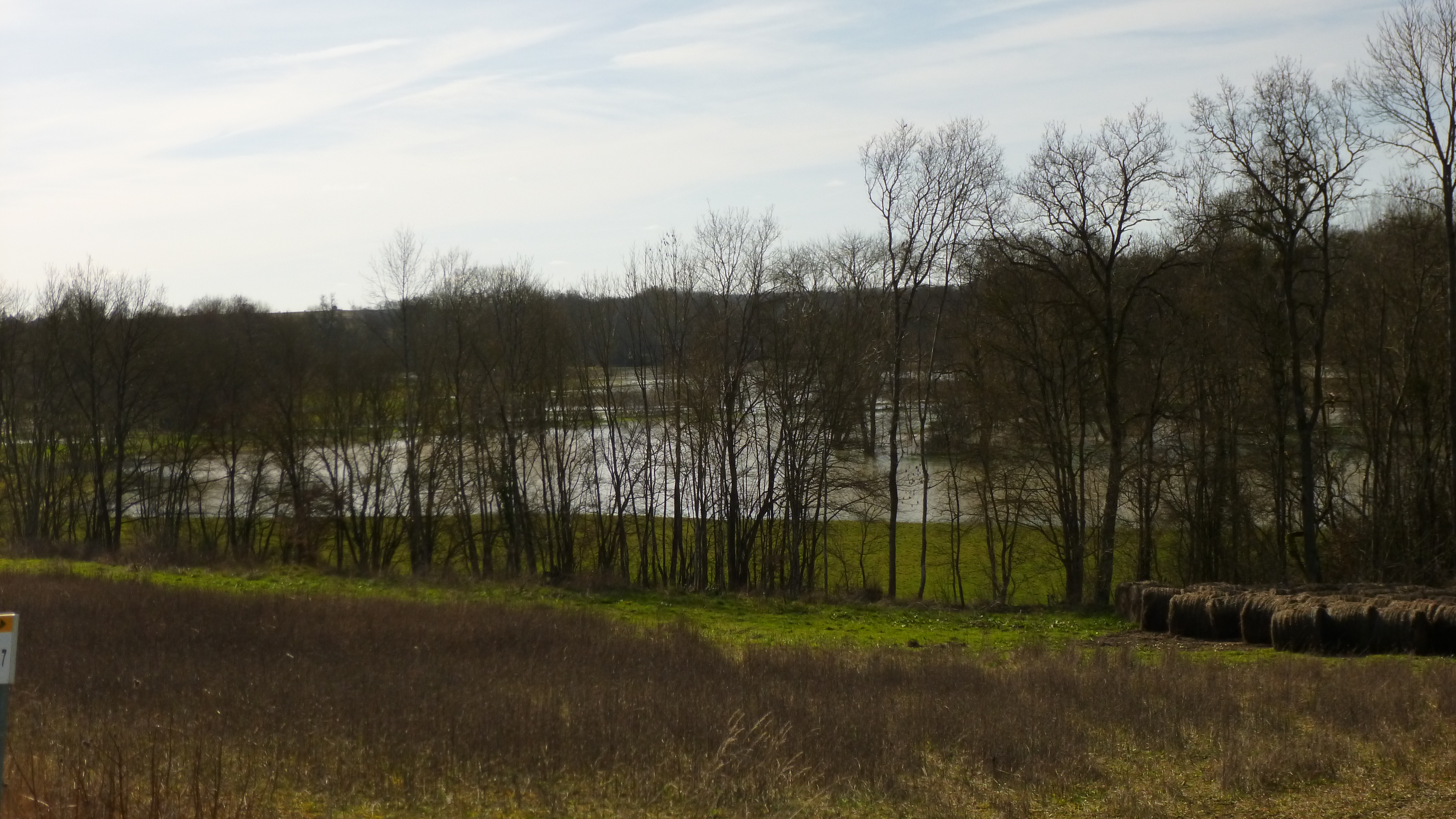 Confluence of the Agréau river (at the back) with the Branlin river (at the front), south of Malicorne (Yonne, Burgundy, France). On the D 18 road to Champignelles, looking west, Feb. 2014; the Branlin and its tributary the Agréau flood the whole bottom of the valley.